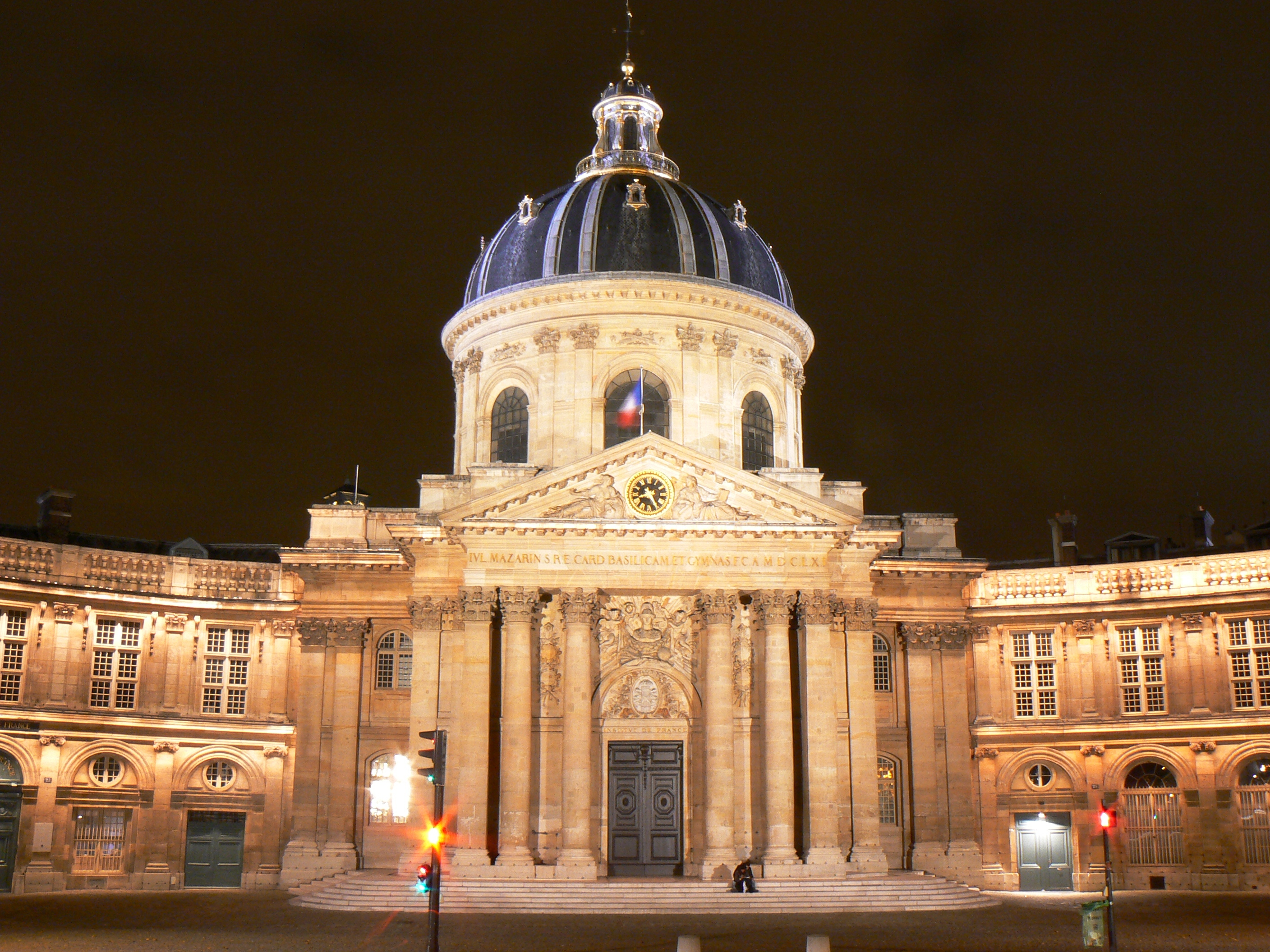 Photo of Institut de France in Paris